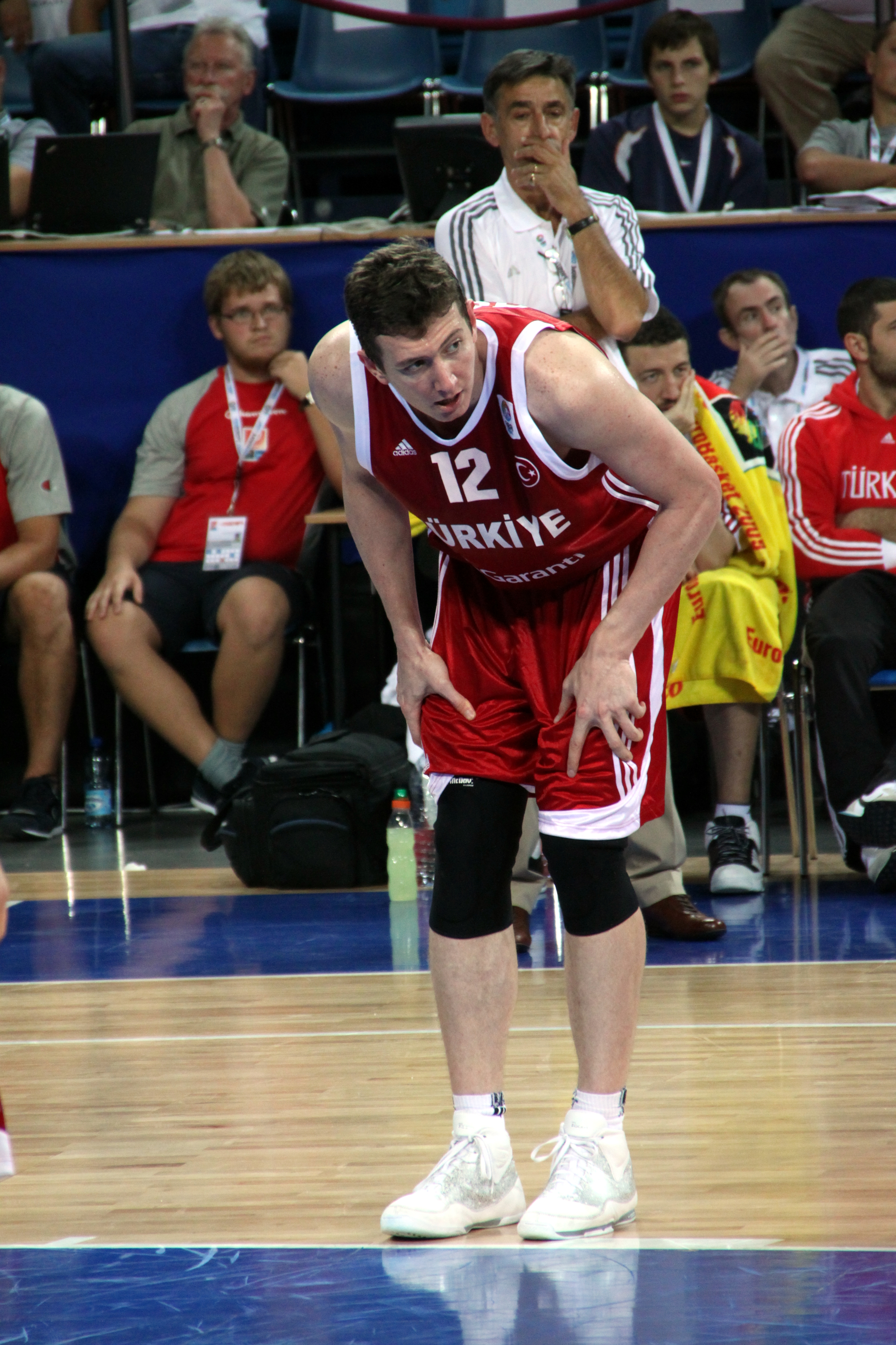 Ömer Asik, the Center of the Turkish team... (Bulgaria - Turkey 66-94, Eurobasket 2009) Bulgaria 66-94 Turkey